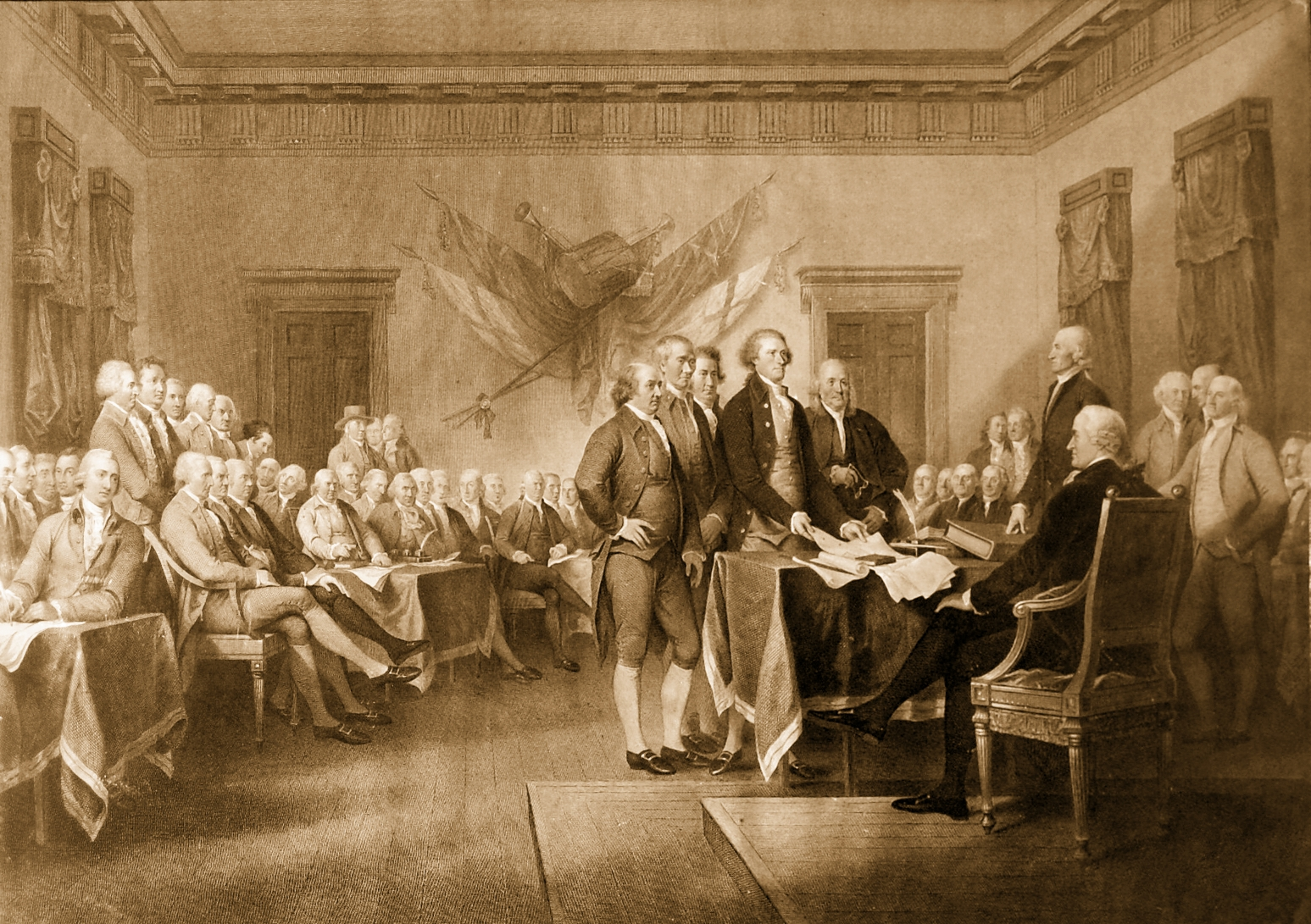 Print made from the engraving by Asher Brown Durand.